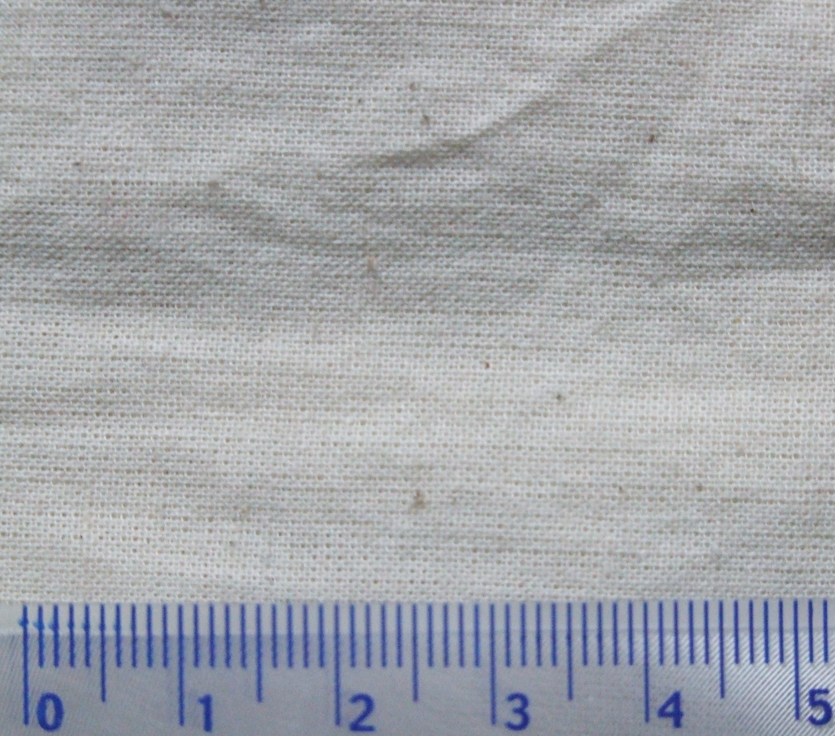 Calico used to fabicate a promotional shopping bag. Scale in cm.